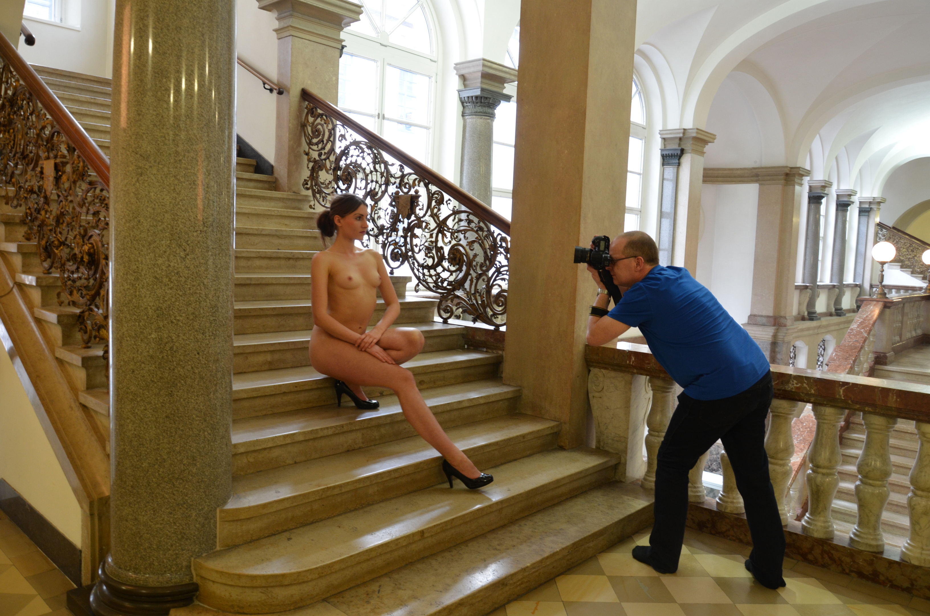 Nuremberg, 10 Wikipedia-Photography Workshop, nude model and photographer.